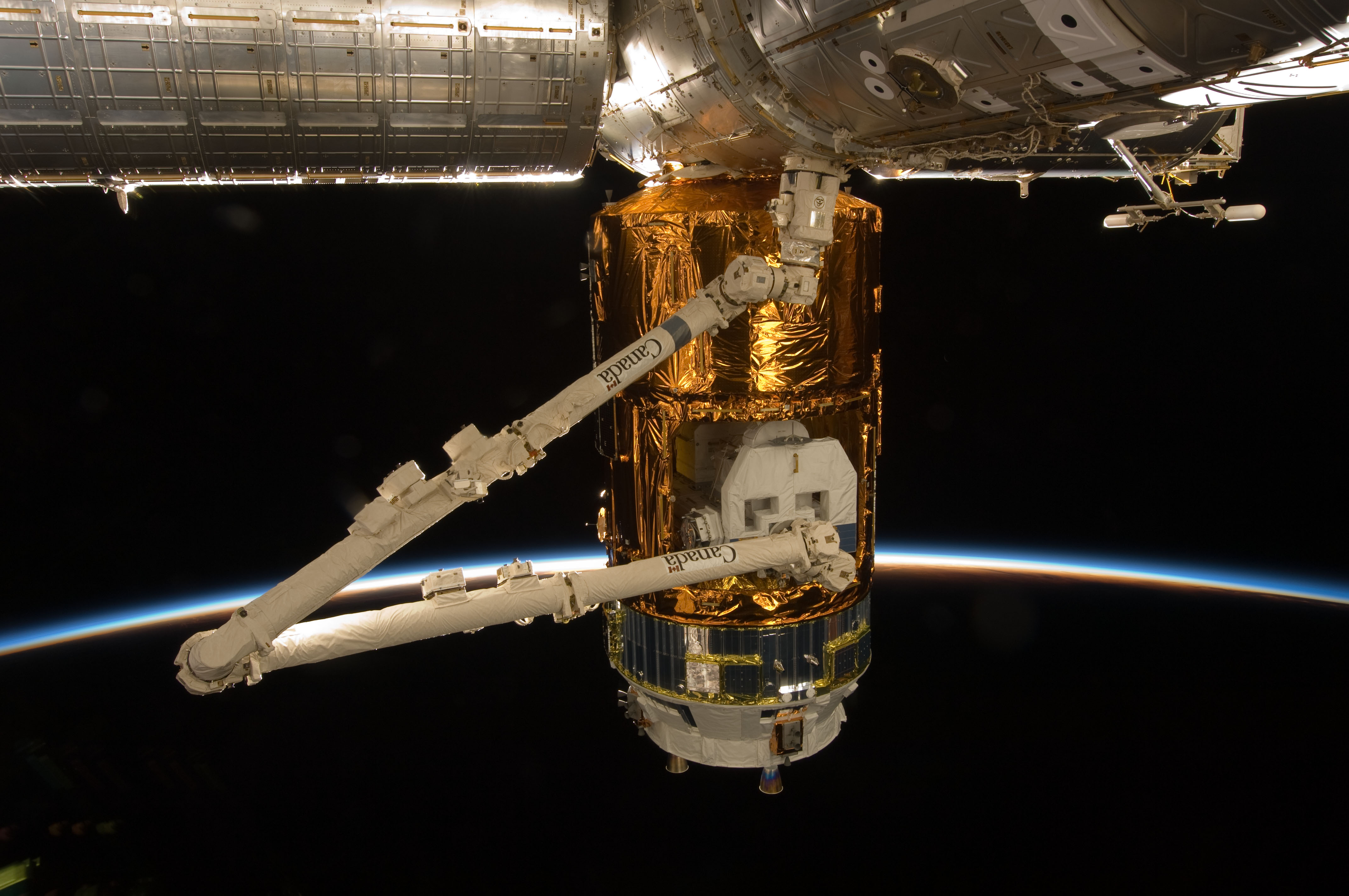 The Japanese Kounotori2 H-II Transfer Vehicle (HTV2), docked to the Earth-facing port of the Harmony node and in the grapple of the Candarm2, is featured in this image photographed by an Expedition 26 crew member on the International Space Station. The thin line of Earth's atmosphere and the blackness of space provide the backdrop for the scene.